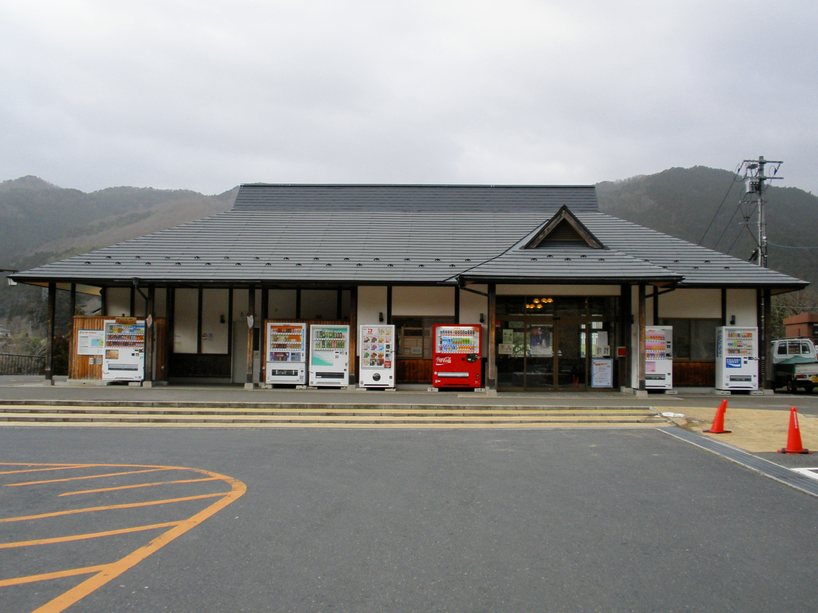 Michinoeki Okutsu Onsen in Kagamino Town, Okayama Prefecture, Japan